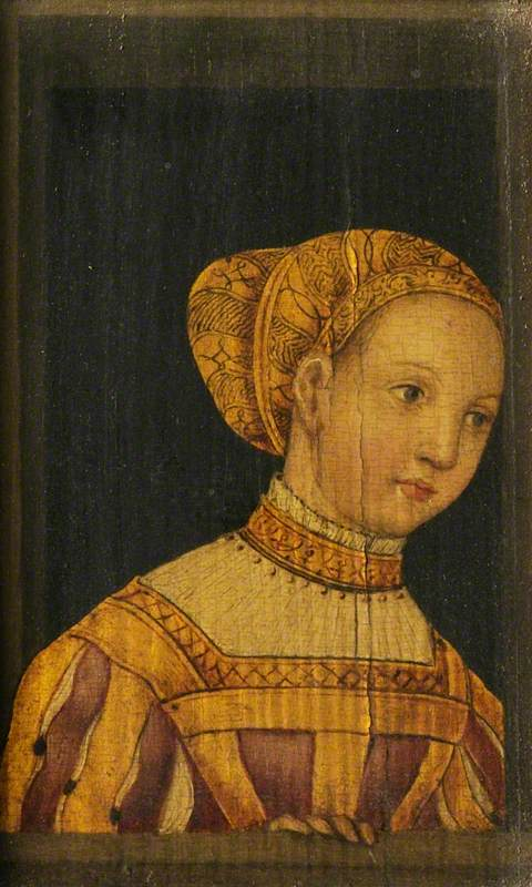 The 19th-century hand writing identifies these women as two Italian rivals from the 14th-century French court. However, the style of the costumes suggests 16th-century Germany. It has been suggested that the ensemble may be a forgery of the 19th century, made by Franz Wolfgang Rohrich (1787-1834) of Nuremberg, who forged paintings in the style of Lucas Cranach and Albrecht Dürer.[1]